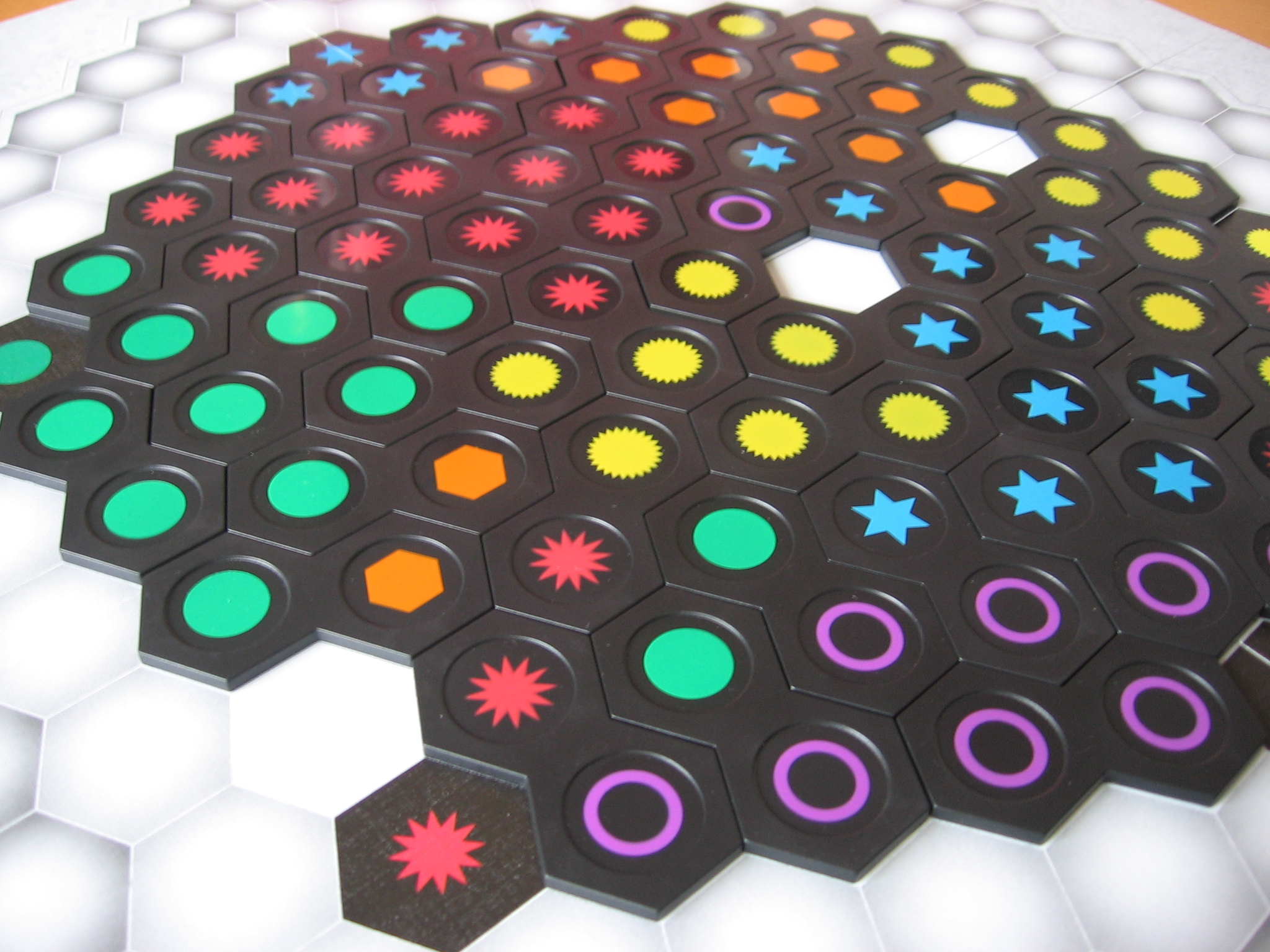 Mensa Connections / Ingenious / Einfach Genial boardgame